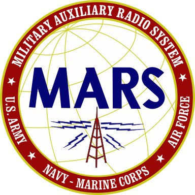 The "Military Affiliate Radio System" name was changed to "Military Auxiliary Radio System" in 2010. I drew this from scratch based on an old logo on display at the US Naval base in Chicago. I added the new name. My version also shows a larger tower, as seen on the older logo.